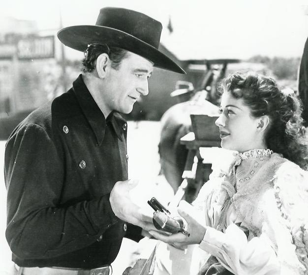 Scene from the 1947 movie Angel and the Badman.